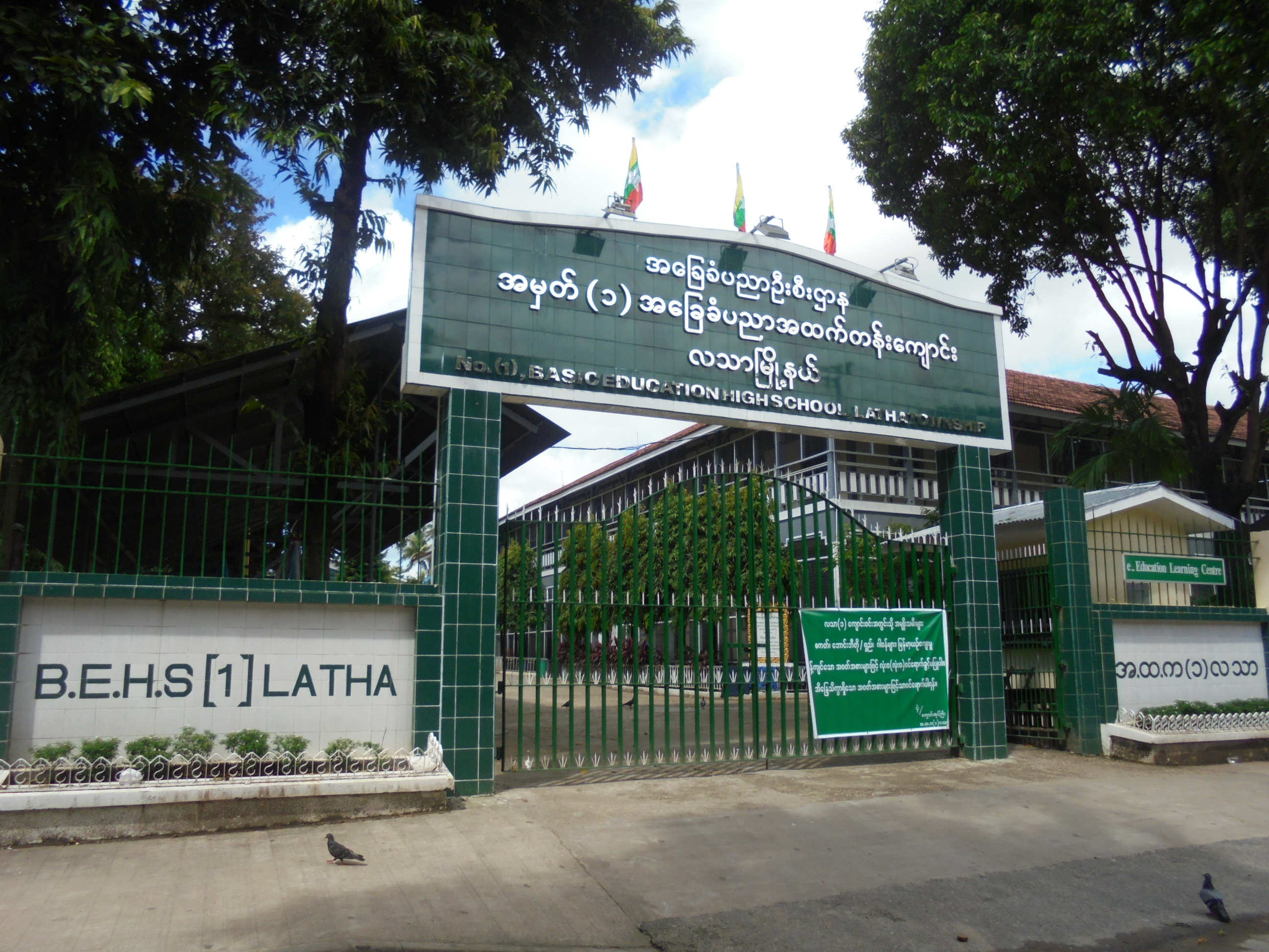 Basic Education High School No. 1 Latha (Central High School) in Yangon (Rangoon)